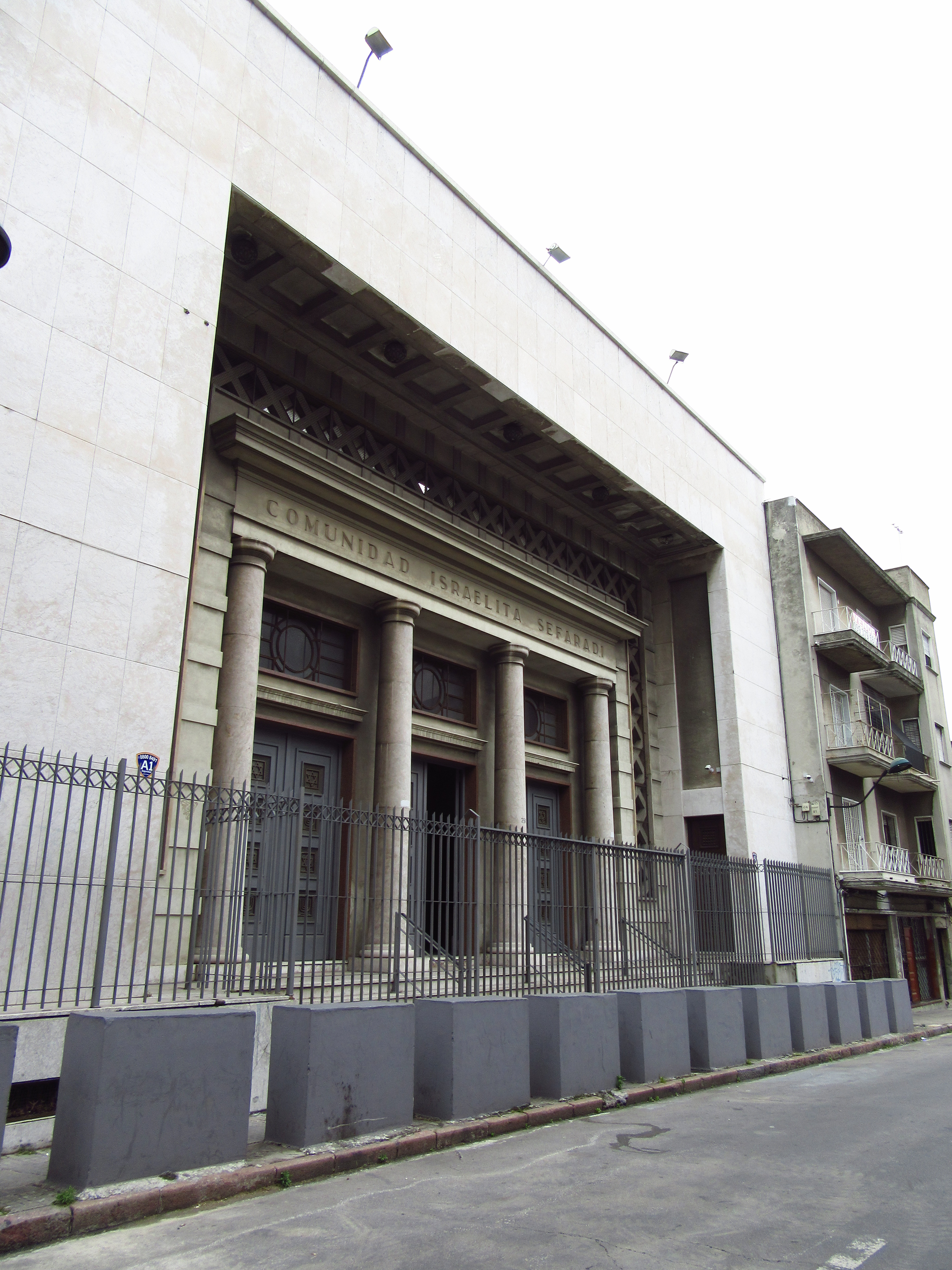 Montevideo